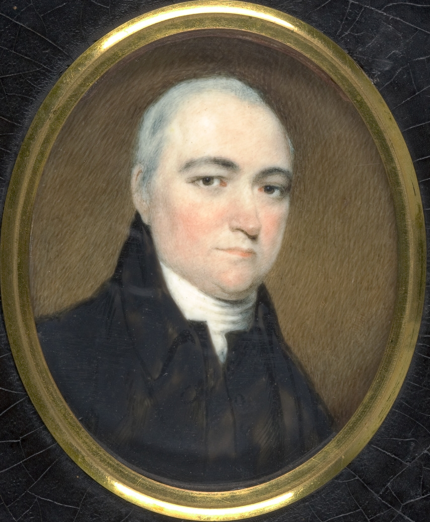 Timothy Dwight (1752-1817) BA 1769, MA 1772